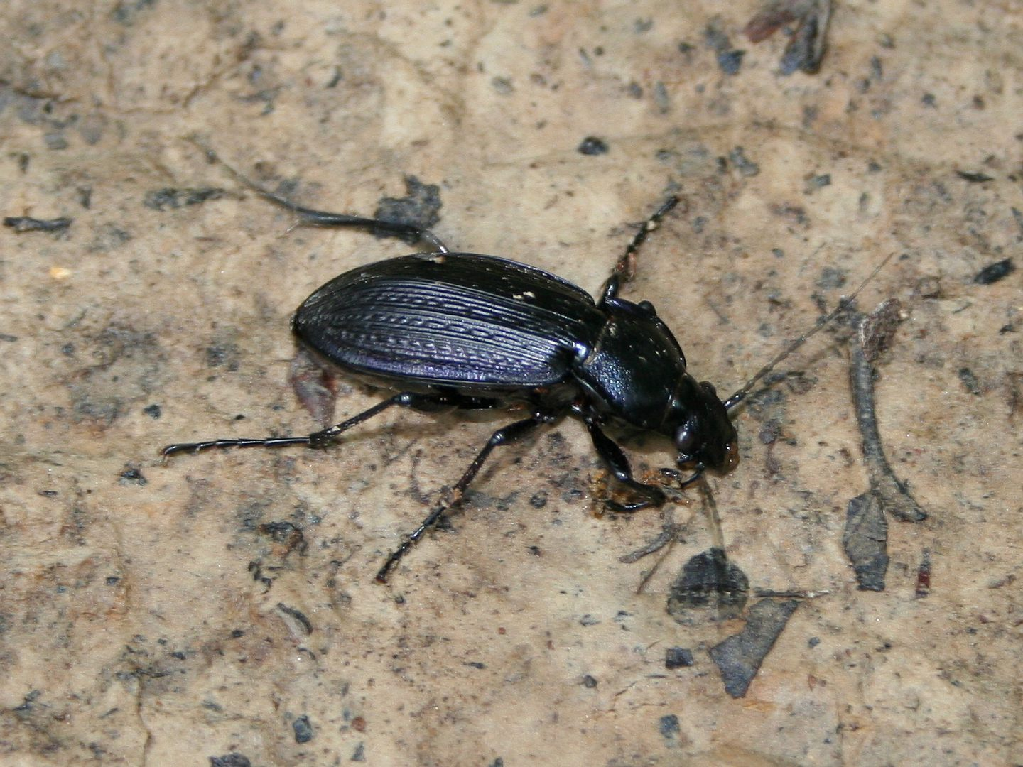 Carabus granulatus photo by Jeffdelonge